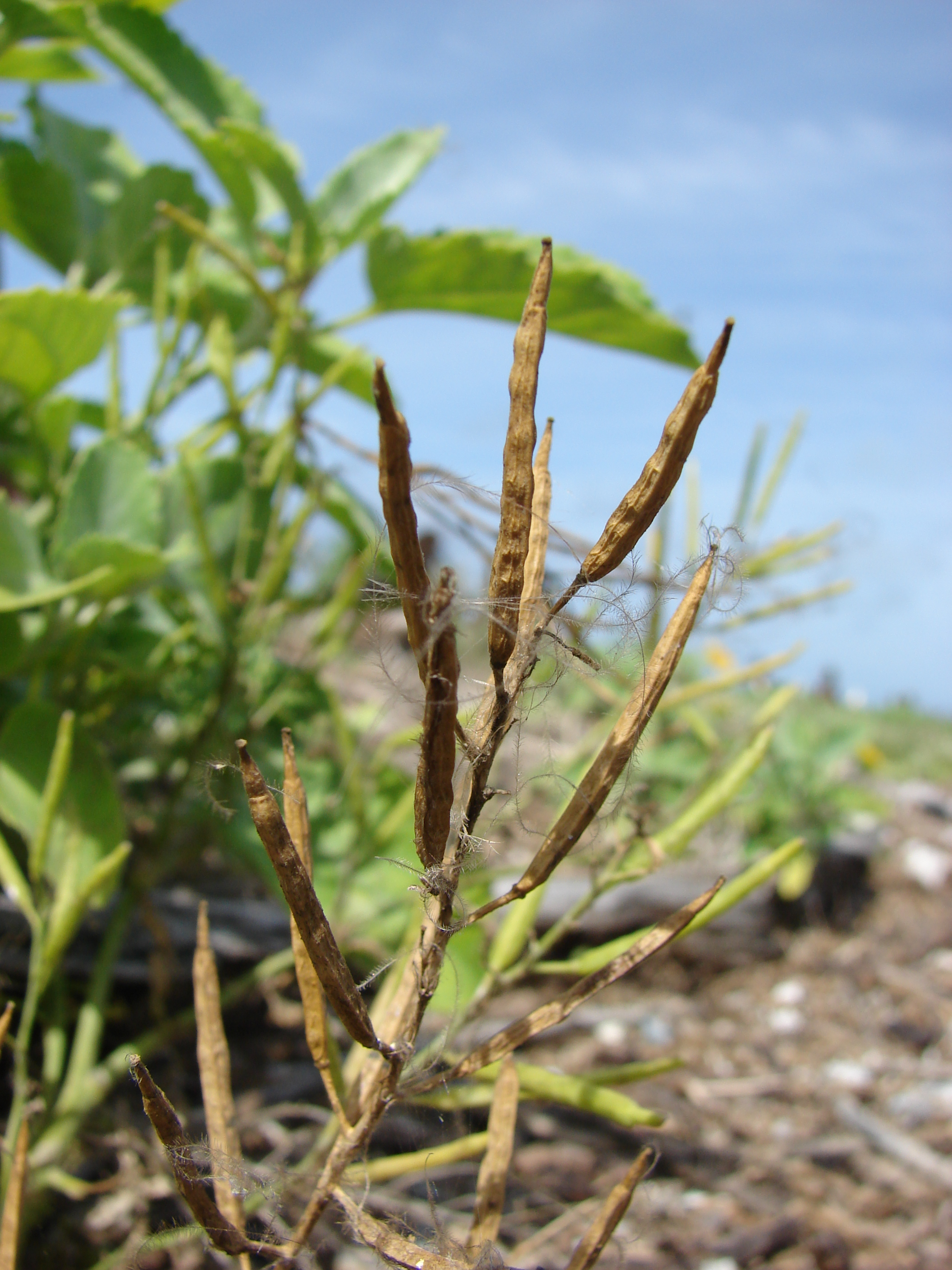 Brassica nigra (seedheads). Location: Midway Atoll, Eastern Island